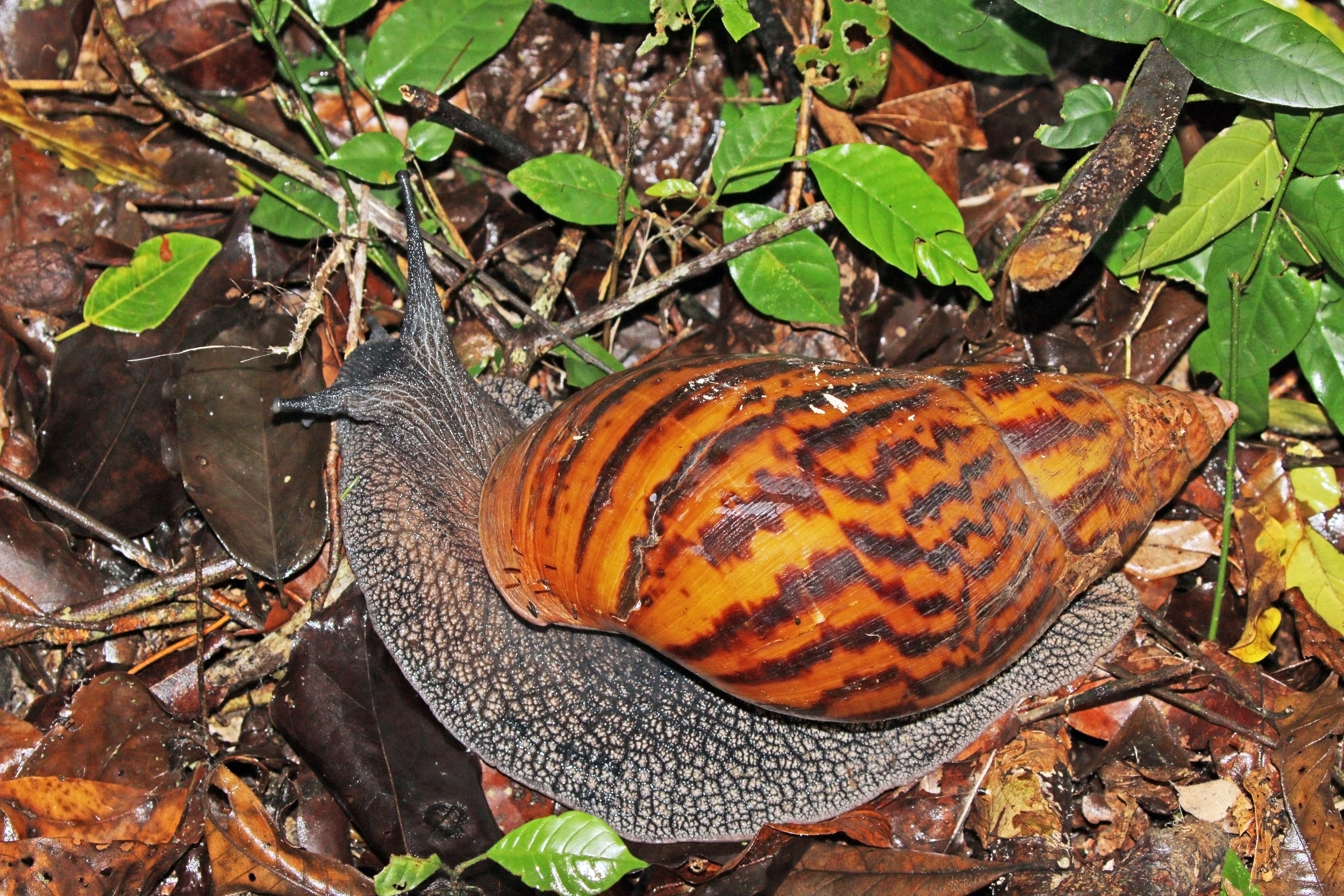 Giant tiger land snail (Achatina achatina), Kakum National Park, Ghana